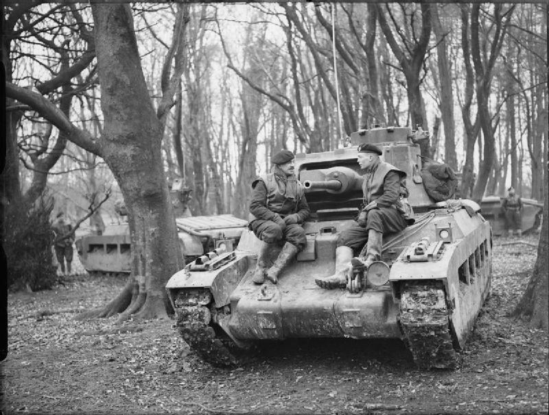 IWM caption : Matilda tanks of 'B' Squadron, 44th Royal Tank Regiment, on an exercise near Worthing, UK